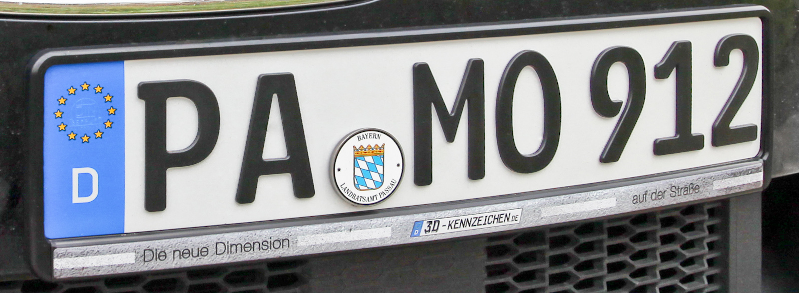 German car registration plate made of plastic materials